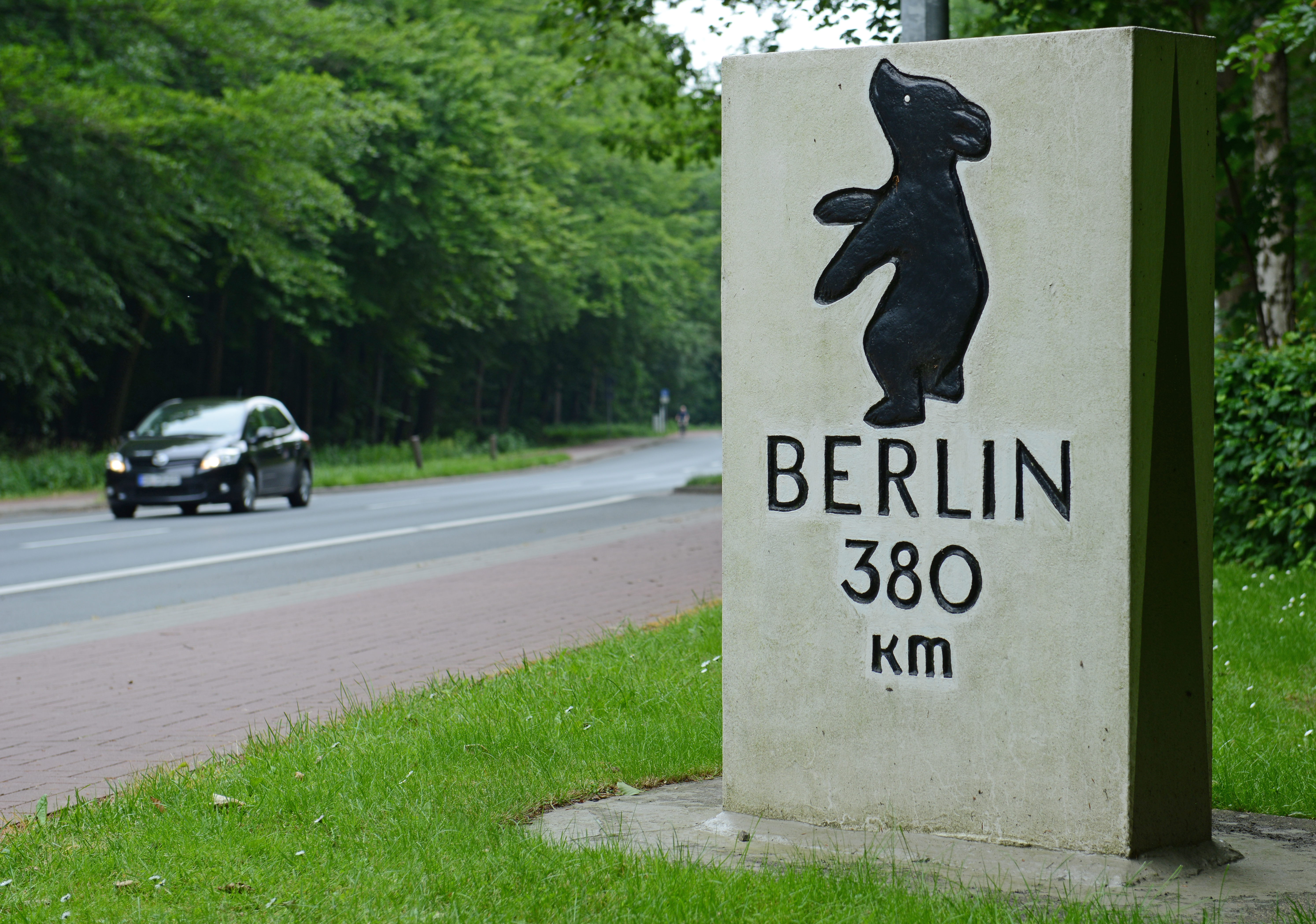 Sign